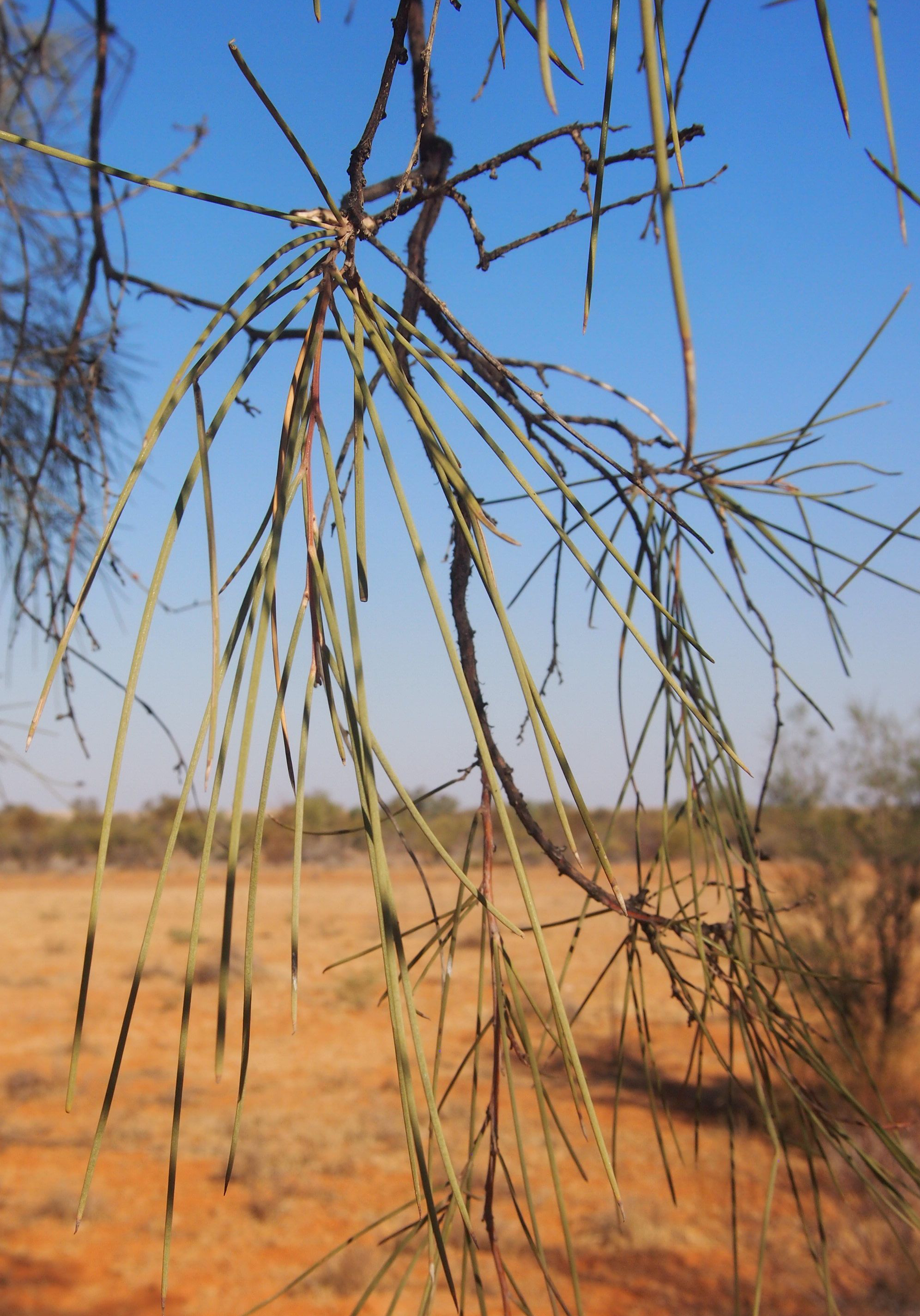 Acacia cyperophylla foliage